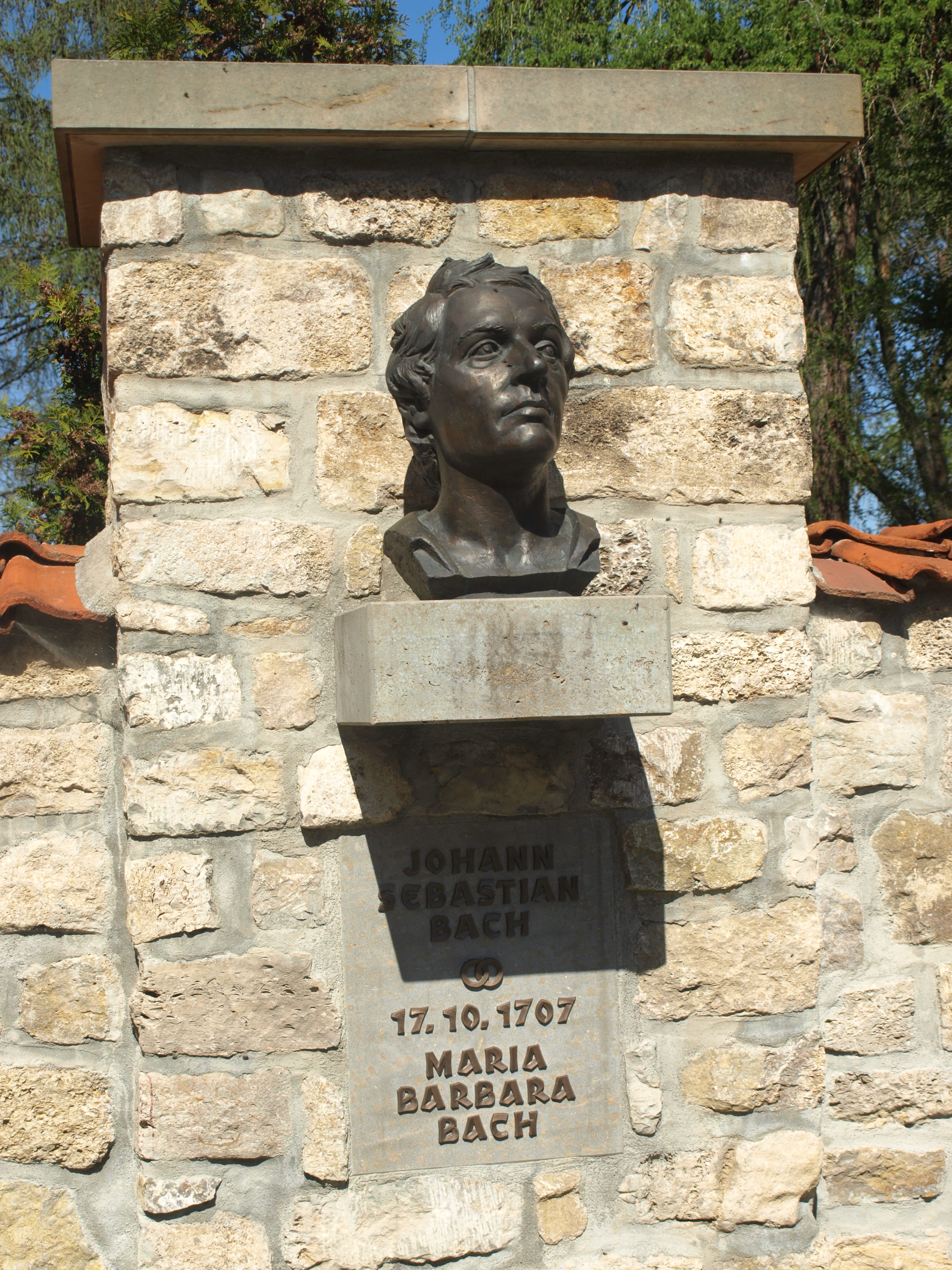 Bust for Johann Sebastian Bach at the church of Dornheim (where he married), Ilm-Kreis, Thuringia, Germany